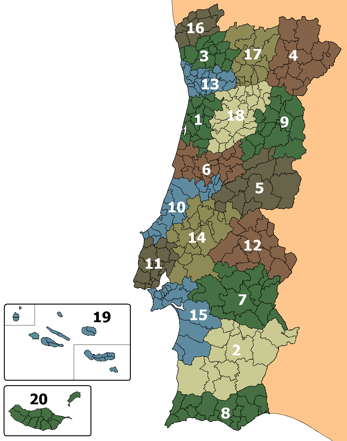 Map of Portuguese municipalities within the respective district or autonomous region